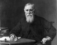 Photo of Christopher Columbus Langdell